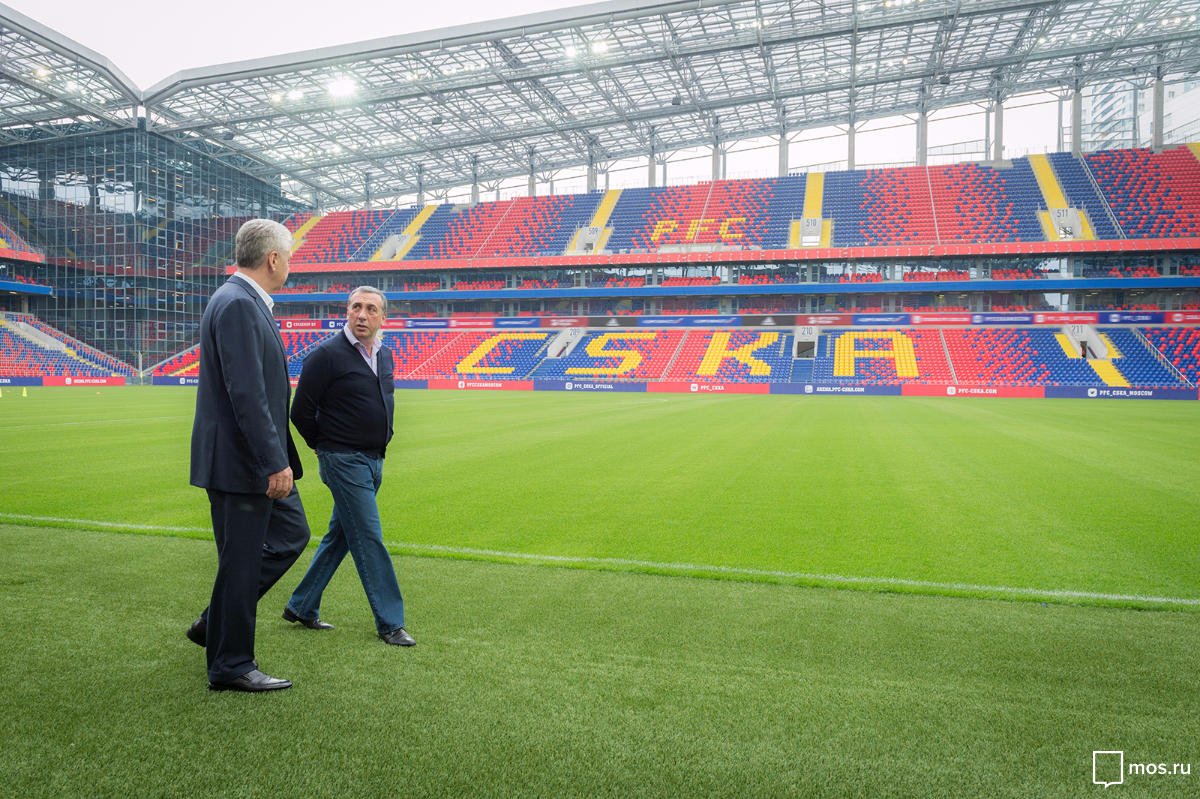 Sergey Sobyanin and Yevgeni Giner in Arena CSKA